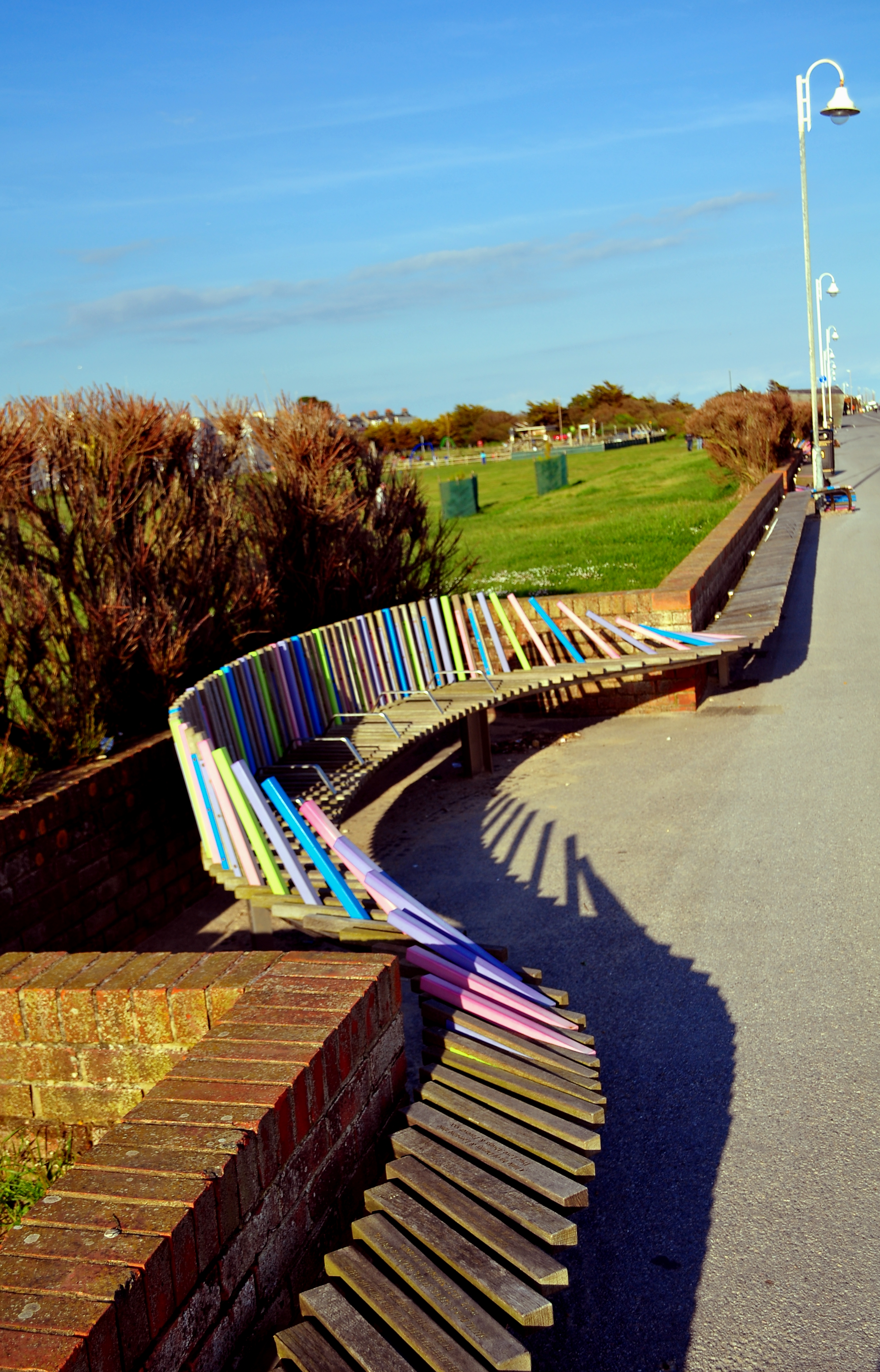 The Longest Bench on Littlehampton seafront bench section